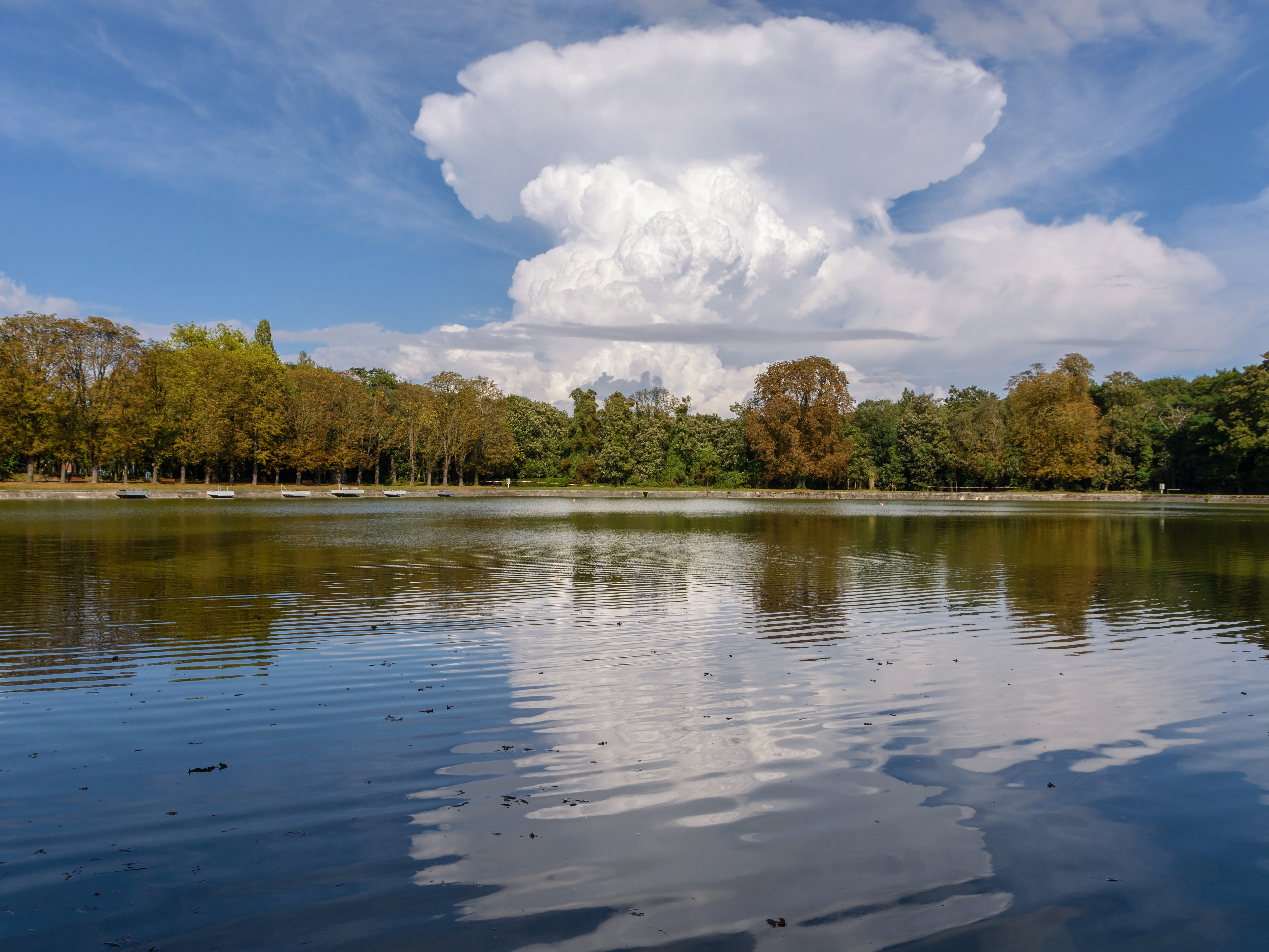 A view of the Étang de Chalais, formely part of the Grande Perspective of the château de Meudon (Meudon, Hauts-de-Seine, France)